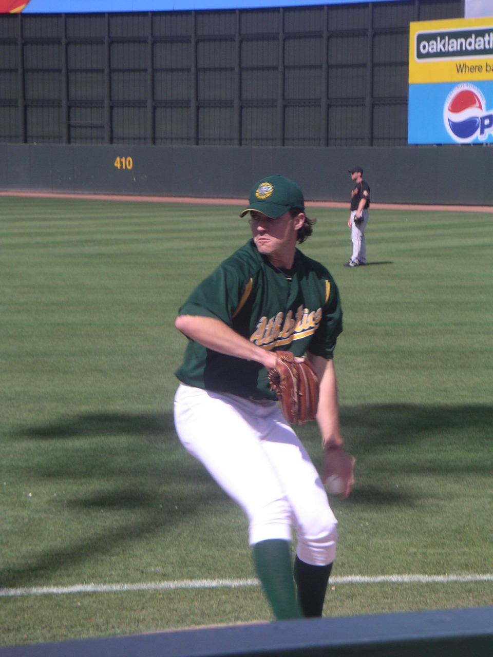 Barry Zito warms up at the Phoenix Municipal Stadium -- March 2005